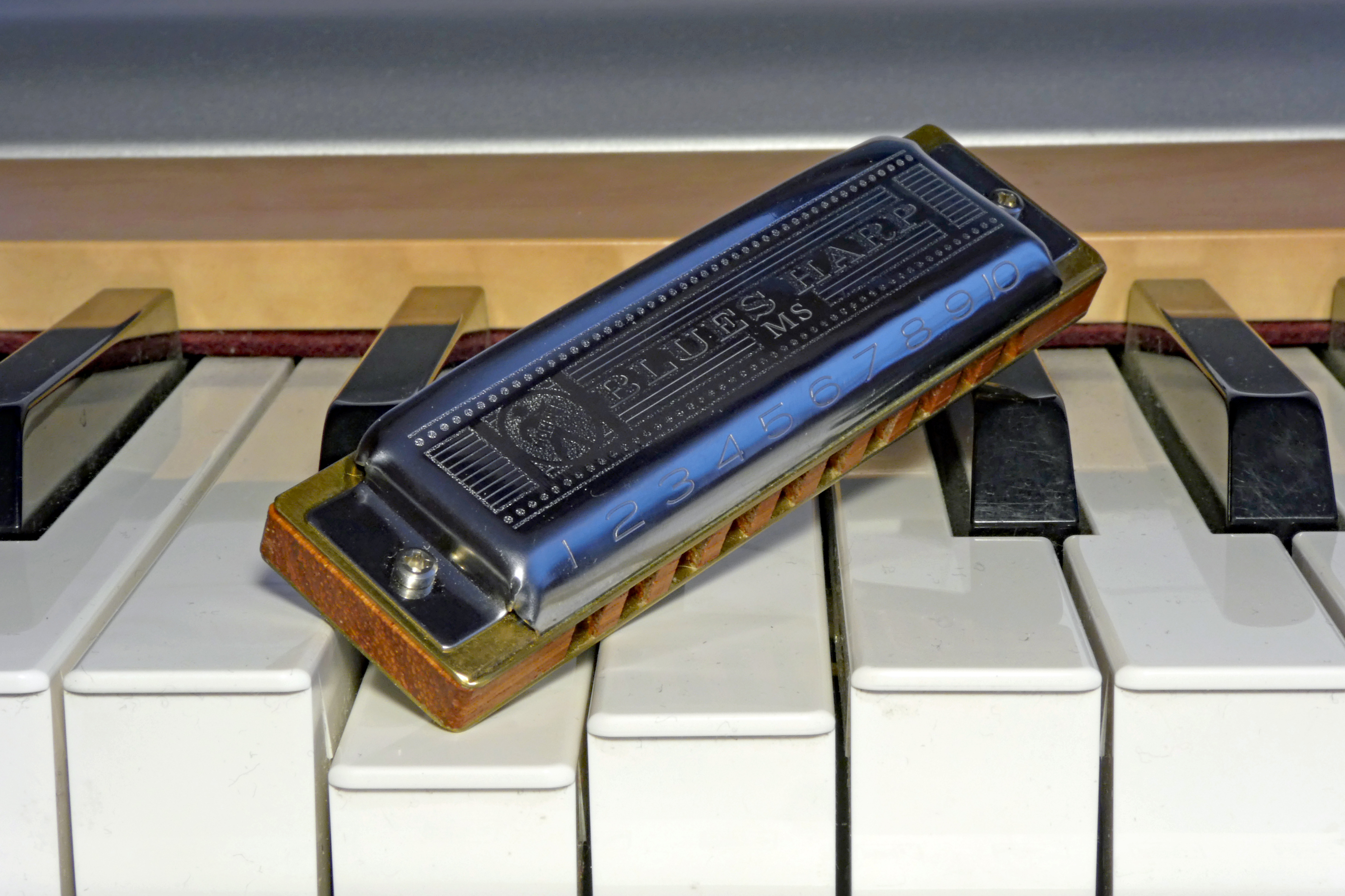 Blues Harp on E-Piano